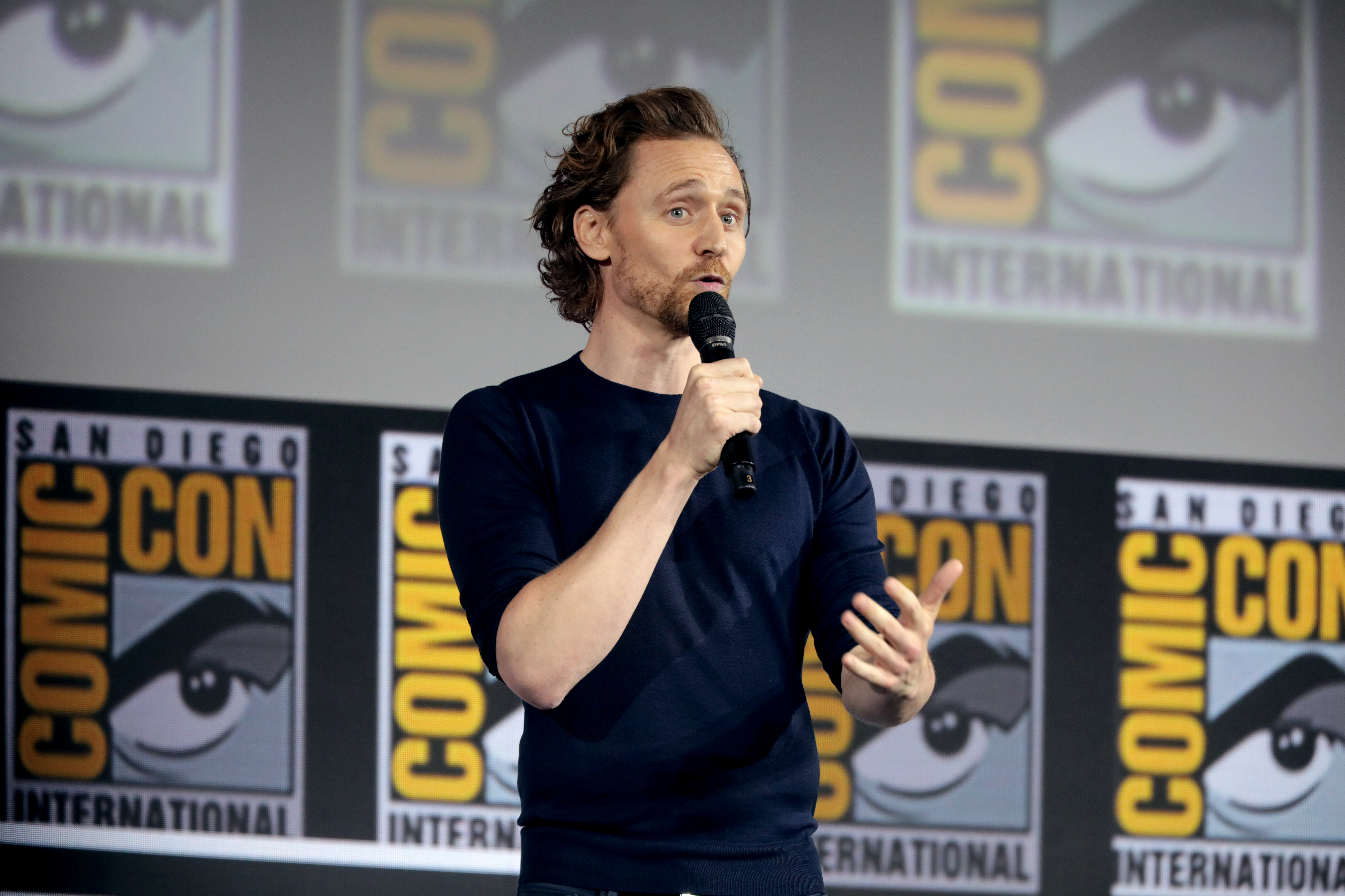 Tom Hiddleston speaking at the 2019 San Diego Comic Con International, for "Loki", at the San Diego Convention Center in San Diego, California.